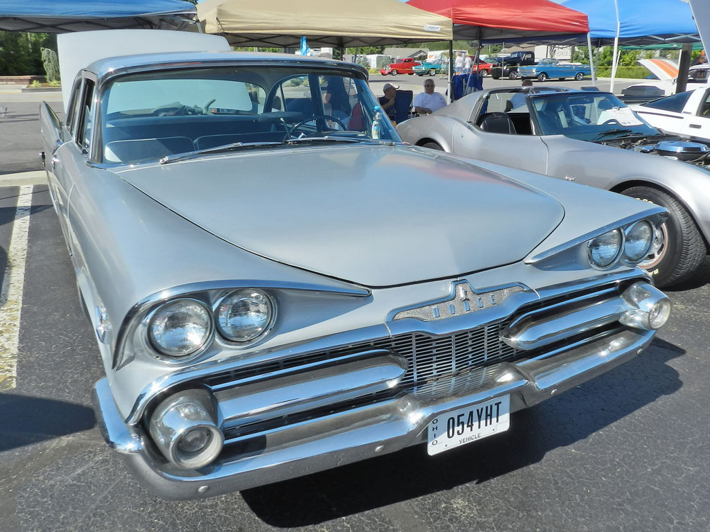 1959 Dodge Coronet 2-Door Sedan with Silver Challenger option. The owner told me he found the rare Dodge in a barn along Wynn Road in Pike County, Ohio. It's all original and has the Dodge 6-cylinder engine. Thw 1959 Silver Challenger was a limited edition.